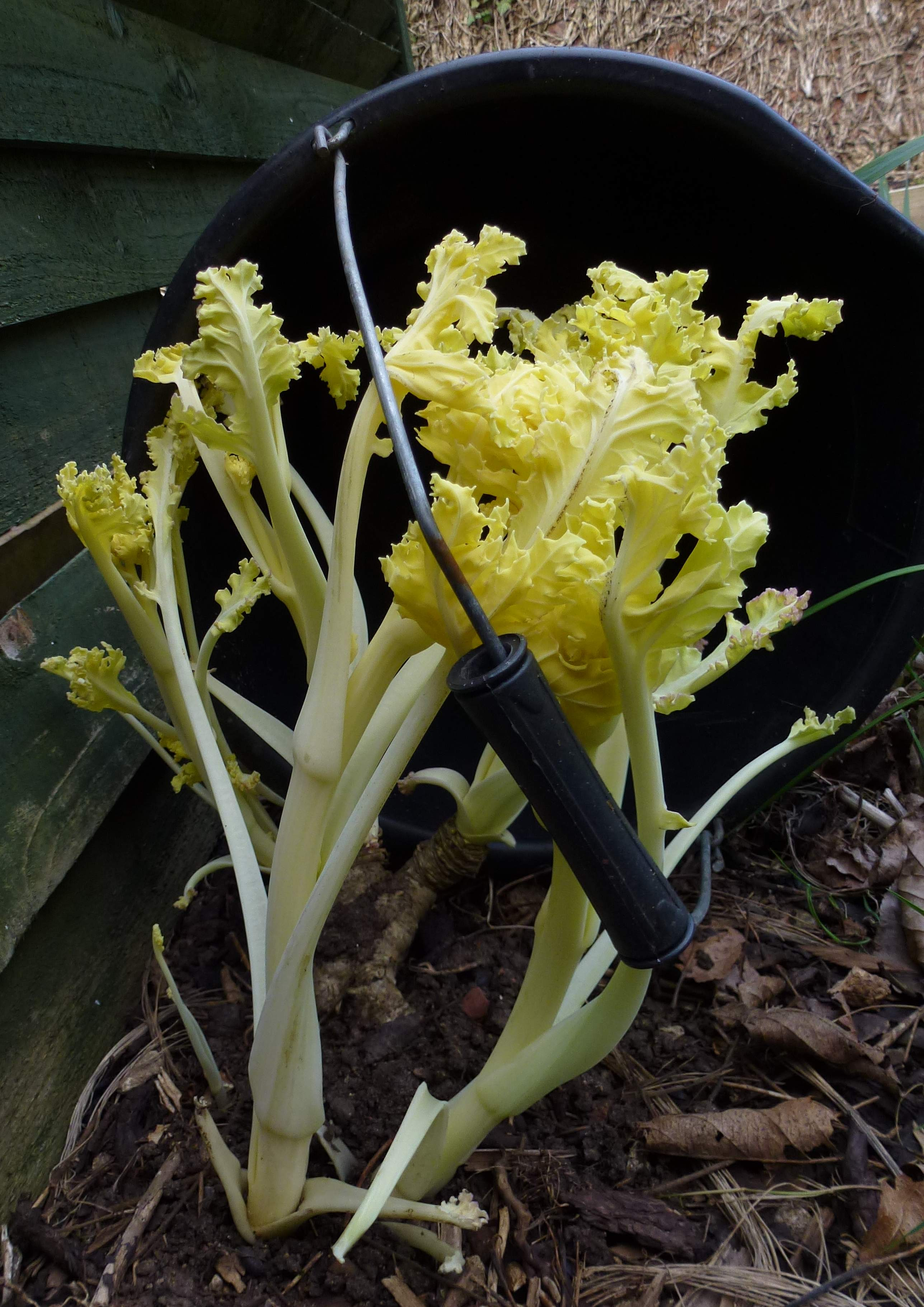 Blanched Crambe Maritima ready for harvest and culinary use.